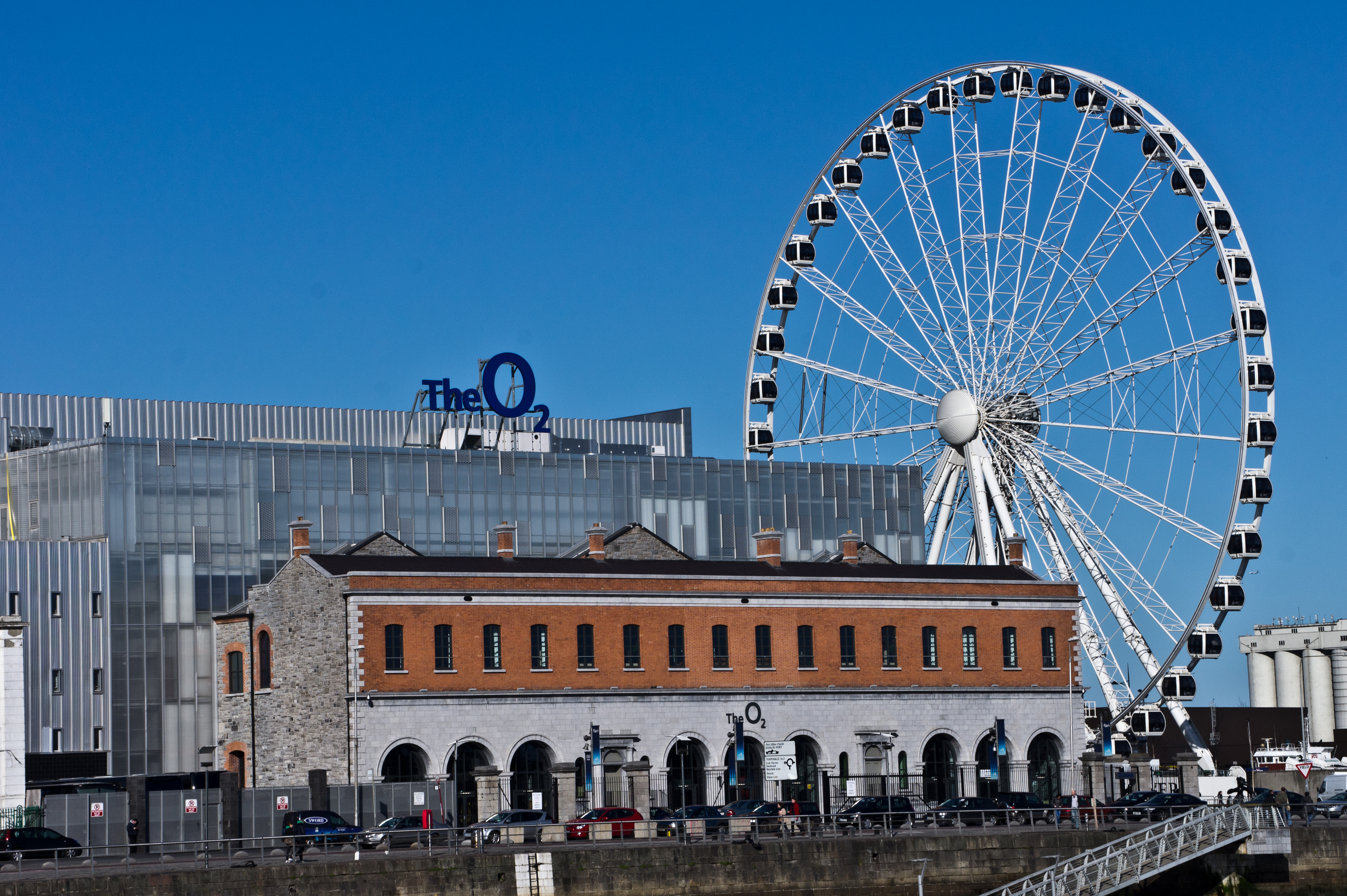 Dublin Docklands is the area of the city of Dublin, Ireland, on both sides of the River Liffey, roughly from Talbot Memorial Bridge eastwards to the Point Depot. It is currently undergoing a large amount of development some of which will never be completed. When I was student I worked part-time for B+I Shipping on the North Wall and at the time the area was well past it's peak and it was well into a terminal cycle of decline. The area may have had "character" but it was was a dirty dangerous place and there was a lot of poverty and unemployment. There were many no-go areas. Despite all the above problems I actually like working there. Over the last twenty five years, economic restructuring and co-ordinated planning has re-shaped both the society and the space but now much of the progress could be negated by the recent financial crash here in Ireland. To the casual visitor it may not be so obvious that there are very definite signs of decline. There are many uncompleted and unoccupied buildings, vandalism is on the increase. Restaurants, pubs and shops are going out of business. I have spoken to a number of foreign students and workers currently living in the area and they all claim that there are constantly being harassed by locals (mainly young children) and they all claim that this has been a recent development. When I was covering the recent election I met some Labour Party workers who confirmed these reports to be true and accurate. They also claimed that because of the complexity of the buildings and infrastructure that the decline could be very rapid because the required level of maintenance is not available.